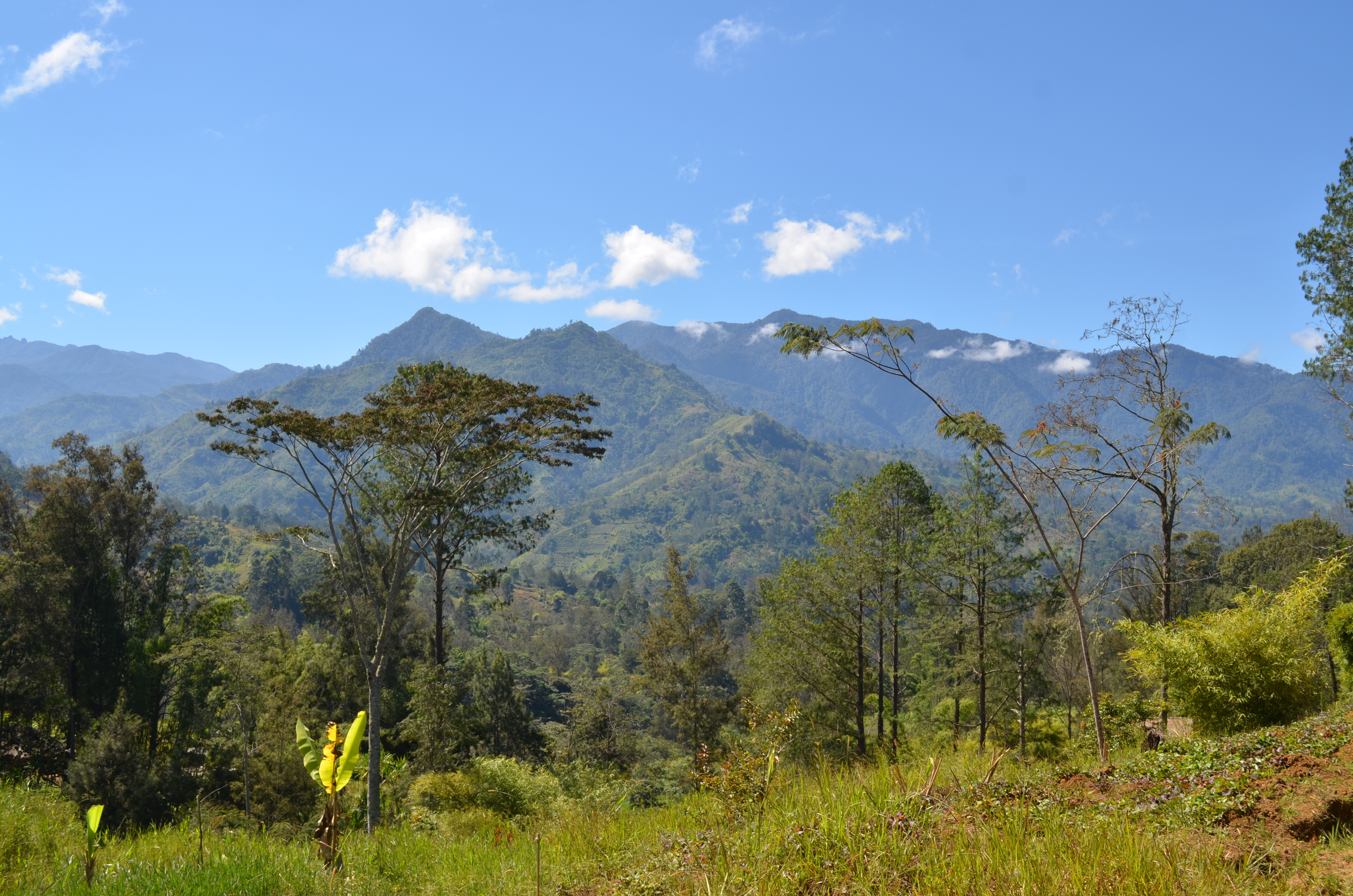 In the highlands of Papua new Guinea. Read about PNG on eGuide Travel